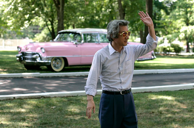 Japan's Prime Minister Junichiro Koizumi stands before a classic pink Cadillac and waves to reporters as he wears a pair of Elvis Presley style sunglasses during his tour Friday, June 30, 2006 of Presley's mansion, Graceland, with President George W. Bush and Mrs. Laura Bush in Memphis.